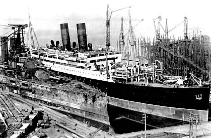 RMS Andania at the Scotts outfitting basin in Greenock, seen from the clock tower of the yard's offices. Alongside is the battleship HMS Ajax (1912).